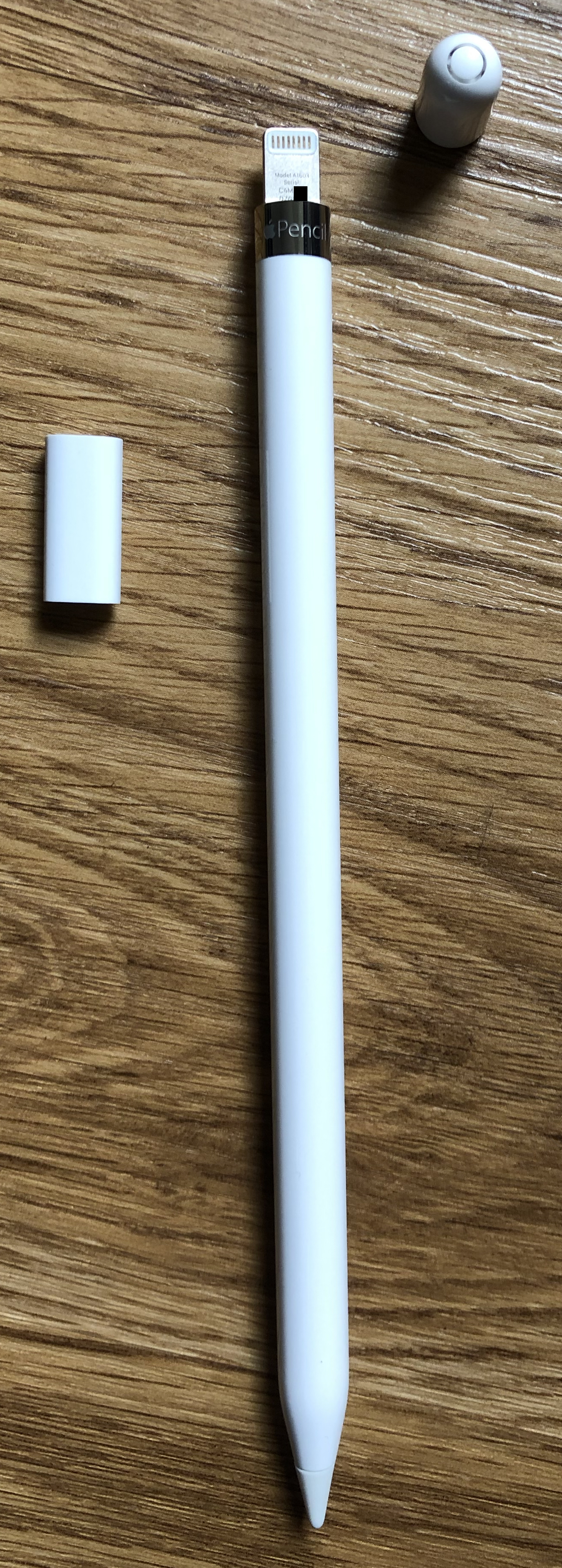 Apple Pencil